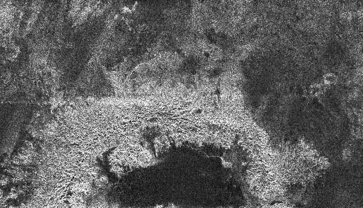 This radar image of Titan shows a semi-circular feature that may be part of an impact crater. Very few impact craters have been seen on Titan so far, implying that the surface is young. Each new crater identified on Titan helps scientists to constrain the age of the surface. Taken by Cassini's radar mapper on Jan. 13, 2007, during a flyby of Titan, the image swath revealed what appeared to be the northernmost half of an impact crater. This crater is roughly 180 kilometers (110 miles) wide. Only three impact craters have been identified on Titan and several others, like this one, are likely to also have been caused by impact. The bright material is interpreted to be part of the crater’s ejecta blanket, and is likely topographically higher than the surrounding plains. The inner part of the crater is dark, and may represent smooth deposits that have covered the inside of the crater. This image was taken in synthetic aperture mode and has a resolution of approximately 350 meters (1,150 feet). North is toward the top left corner of the image, which is approximately 240 kilometers (150 miles) wide by 140 kilometers (90 miles) high. The image is centered at about 26.5 degrees north and 9 degrees west. The Cassini-Huygens mission is a cooperative project of NASA, the European Space Agency and the Italian Space Agency. The Jet Propulsion Laboratory, a division of the California Institute of Technology in Pasadena, manages the mission for NASA's Science Mission Directorate, Washington, D.C. The Cassini orbiter was designed, developed and assembled at JPL. The radar instrument was built by JPL and the Italian Space Agency, working with team members from the United States and several European countries. For more information about the Cassini-Huygens mission visit